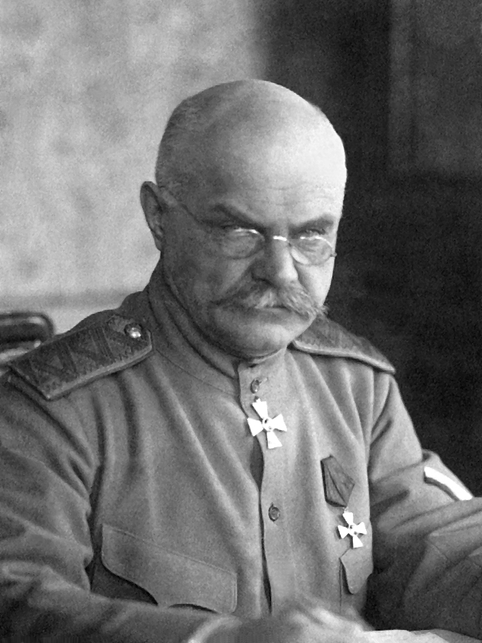 Dragomirov Abram Mikhaylovich (1868—1955) — Russian General of the Cavalry. Participant in World War I and in the Russian Civil War on the side of the White movement. Active participant in the Russian All-Military Union (ROVS)